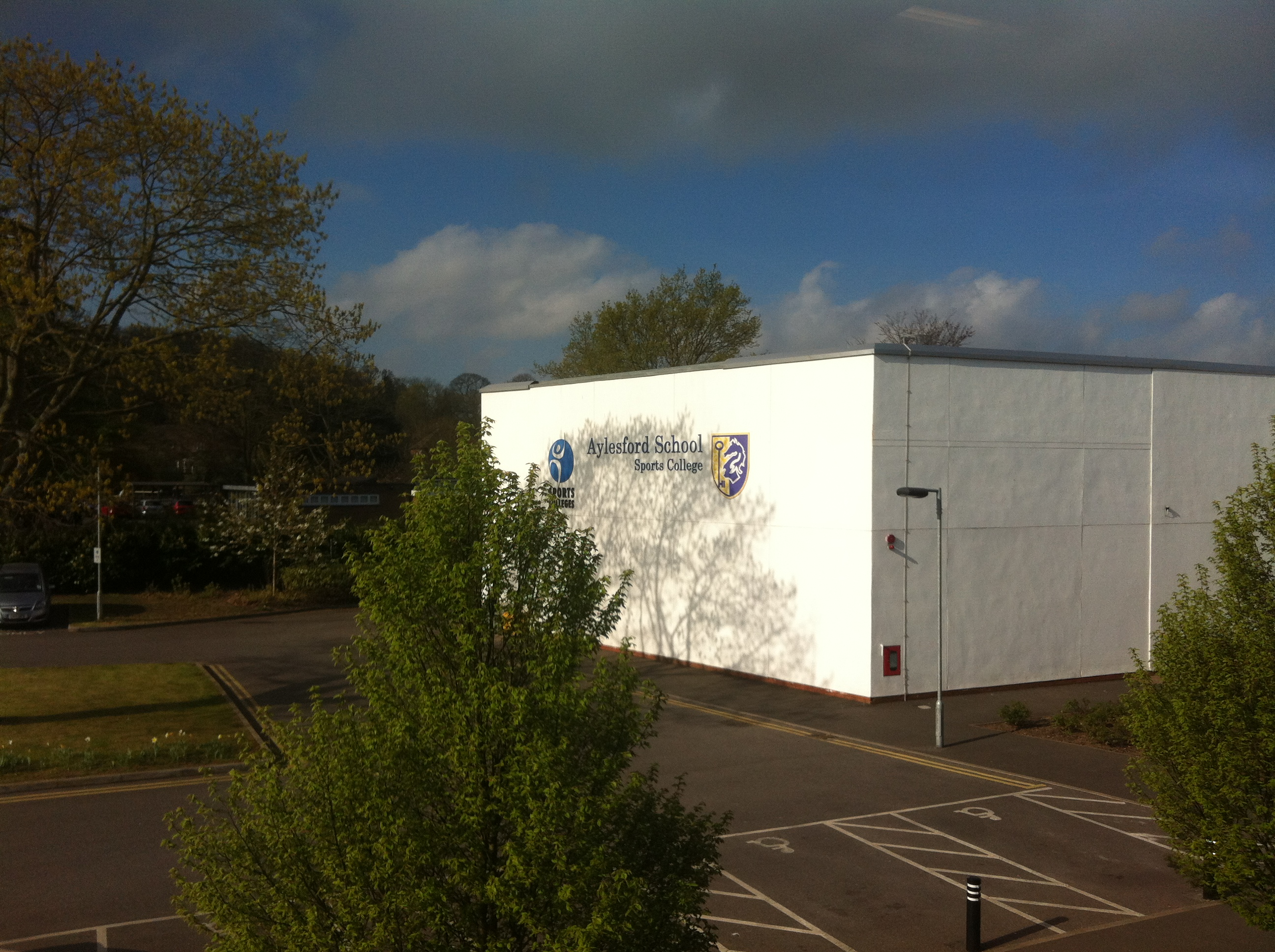 Image of Aylesford School Sports College Main Building